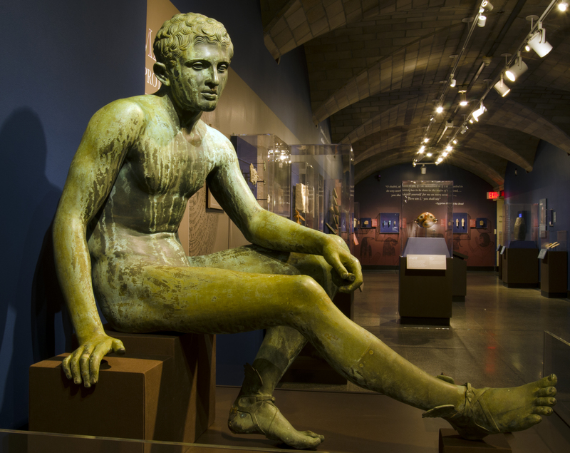 Statue (Reproduction) of Seated Hermes commissioned by John Wanamaker from the J. Chiurazzi and Fils foundry on display in the Penn Museum.